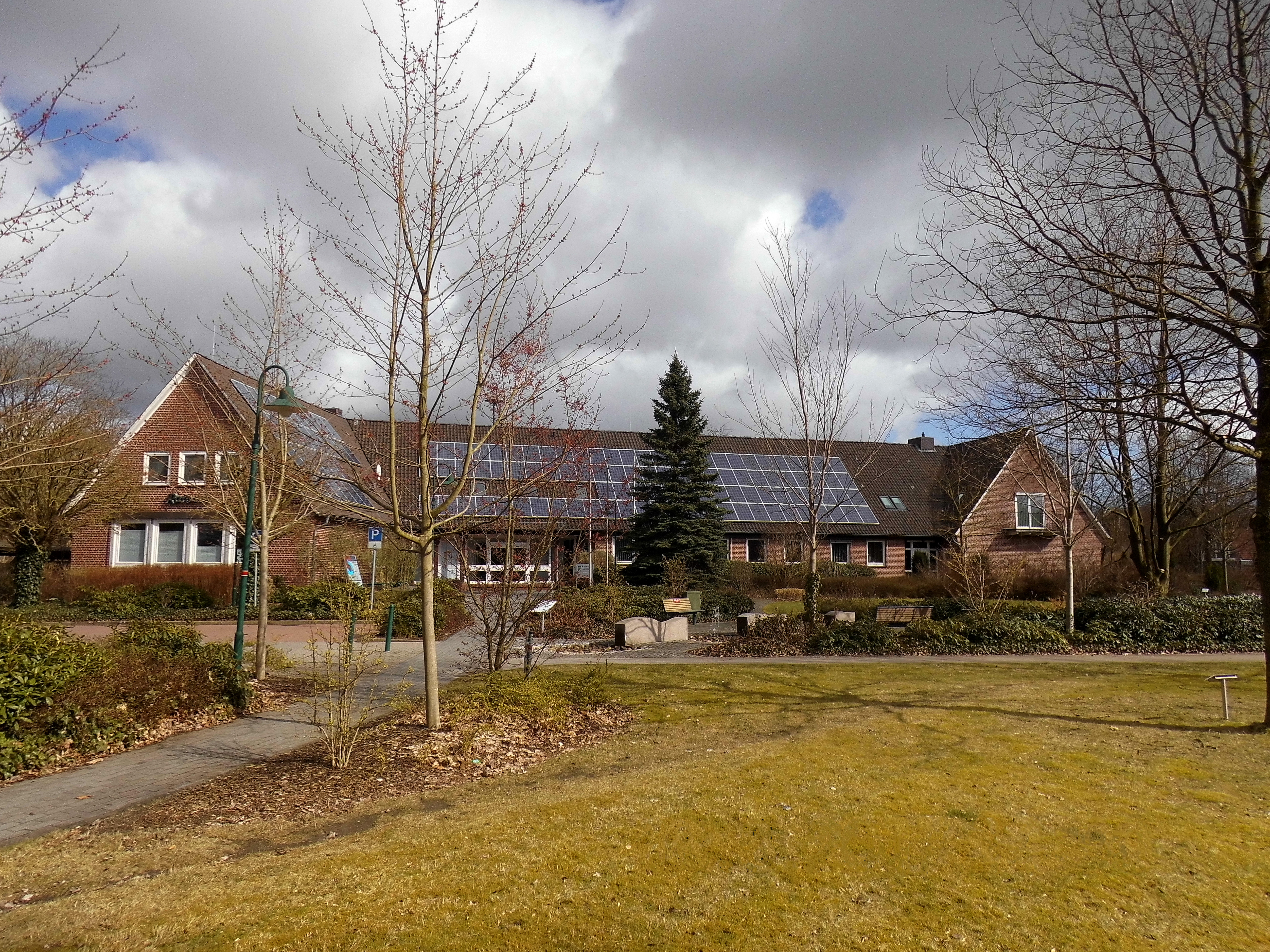 Himmelpforten town hall